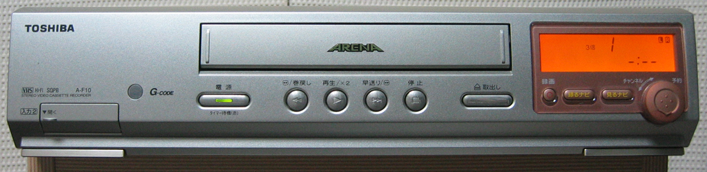 TOSHIBA STEREO VIDEO CASSETTE RECORDER "ARENA A-F10"